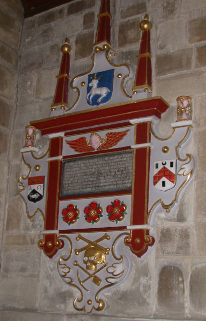 Andrew Downes Memorial, St Peter's Church This memorial to the Regius Professor of Greek, one of the translators of the King James Bible, was restored and repainted in 1968. The Latin inscription reads: ANDREAS DOWNES SALOP COL D IOHAN APVD CANTABOLE[M] SOCI[VS]. GRÆCÆ LINGVÆ REGIVS PROFFESSOR: QVAM PROVINCIAM SVMA[M] CVM FIDELITATE ET EGREGIA LAVDE PER VNDE QVADRAGINTA ANNOS EXORNAVIT: VIR MORVM CANDORE SPECTABILIS. IN REBVS DIVINIS PROBE EXERCITVS TOTIVS A HVMANIORIS LITERATVRÆ. AD STVPOREM VSQ[VE] CALLENTISSIM[VS]. IAM SEPTVAGENERI[VS]: ET QVOD EXCVRRIT RVDE DONATVR AB ACADEMIA, RESERVATO TAMEN EI CONSVETO HONORARIO. AN[N]O ÆTATIS 77º SECESSIT HVC IN AGRVM SVBVRBANVM. VBI ANTE AN[N]VM EXACTVM POSTRIDIE CAL: FEB: 1627 MORTALITATEM DEPOSVIT.